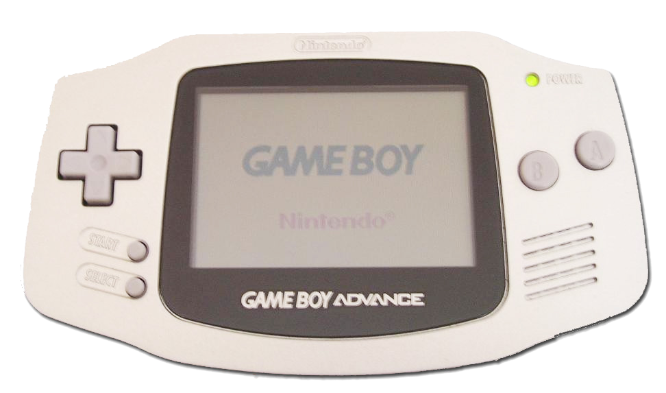 Game Boy Advance "Limited Edition Platinum" with GBA game running.